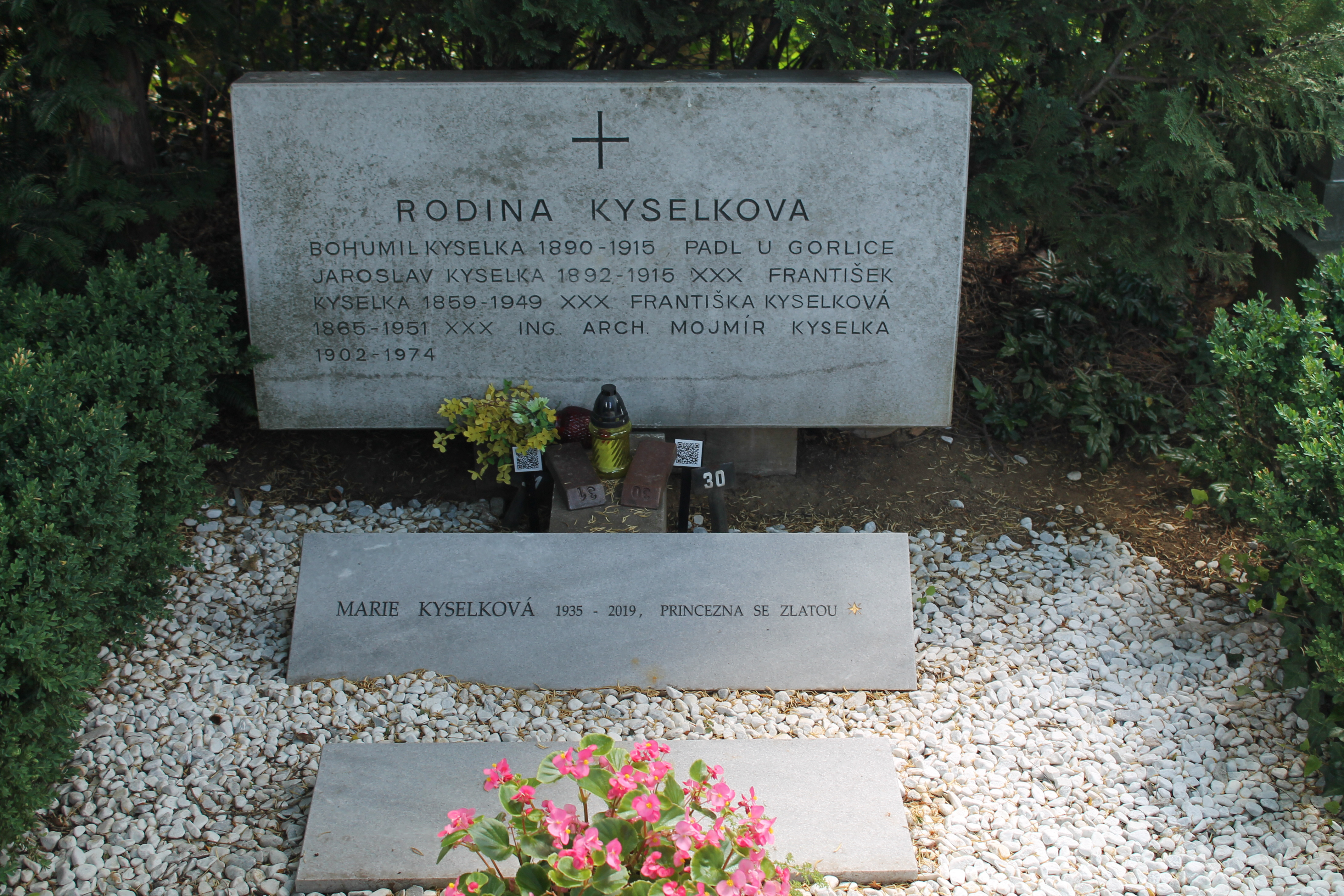 Grave of Mojmír Kyselka and Marie Kyselková, Central cemetery, Brno, Czech Republic